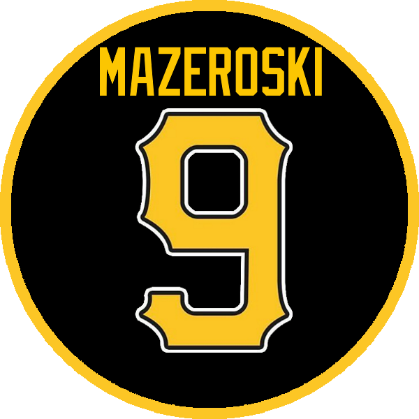 Illustration of Pittsburgh Pirates retired number